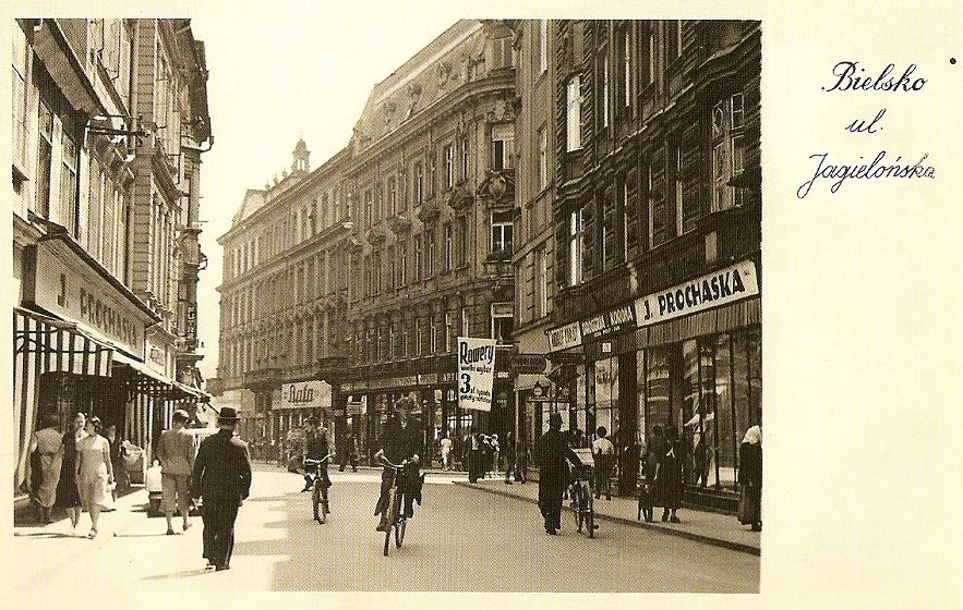 11 Listopada Street in Bielsko-Biała, Poland in 1938.